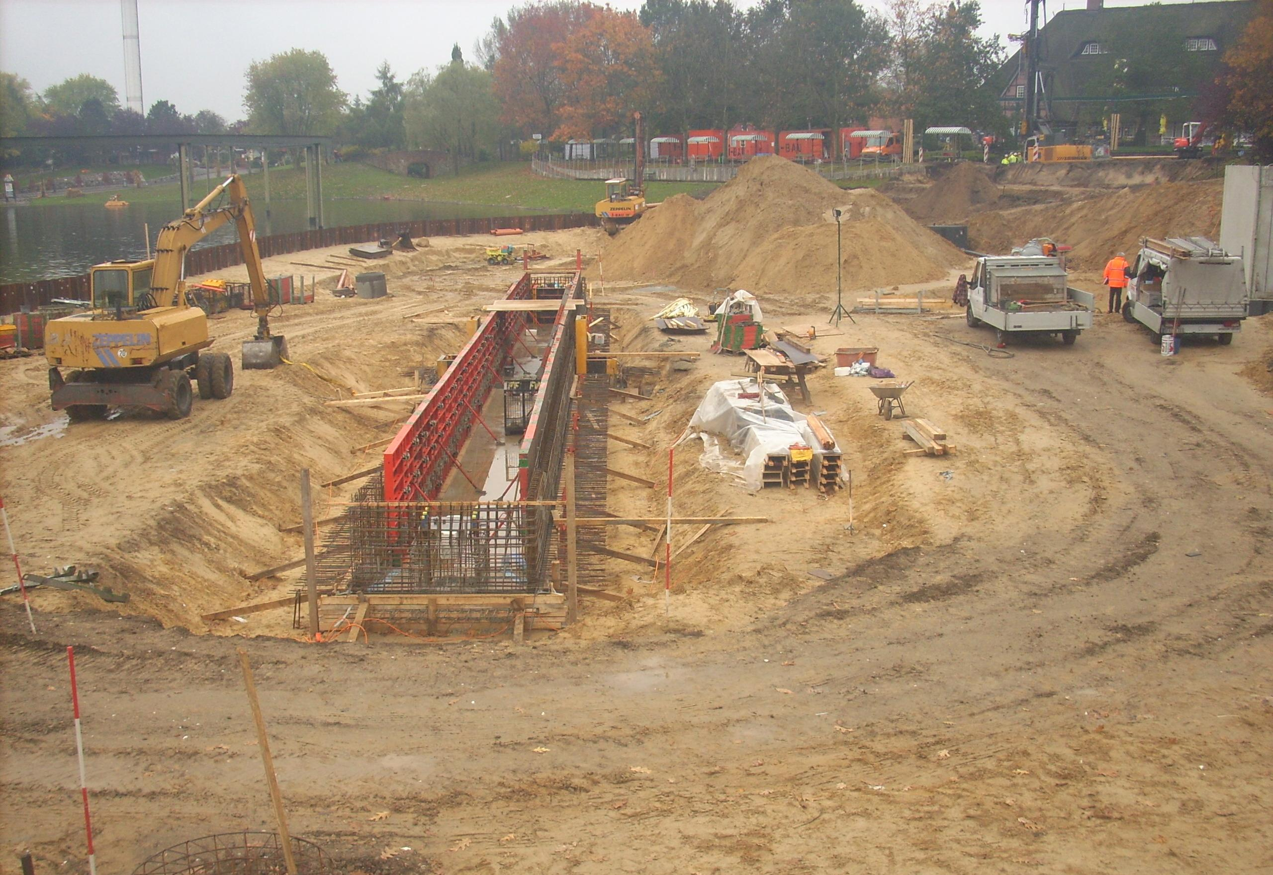 Construction of the Splash of KRAKE